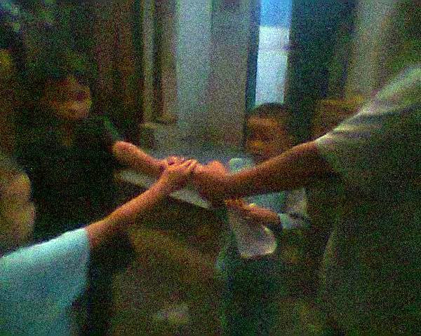 pim-pom-pilem